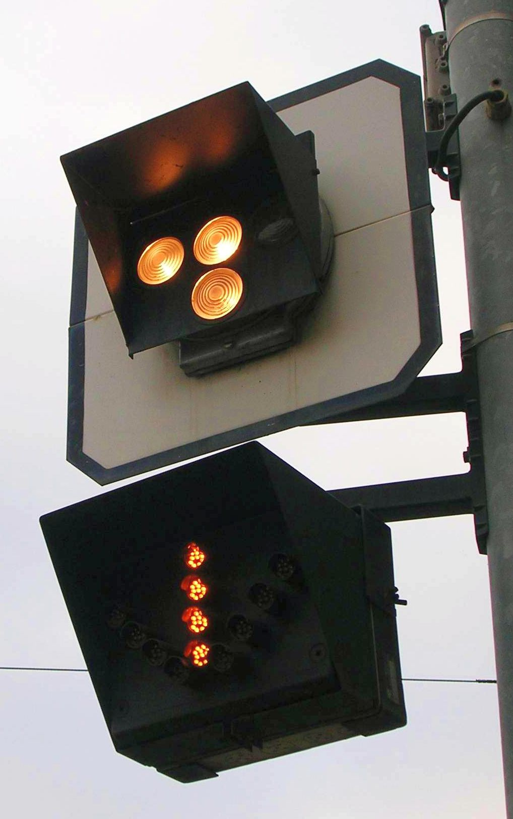 New Town, Prague, the Czech Republic. Palackého Square. Tram traffic lights "Free for directly and left". - Google Maps - Google Earth